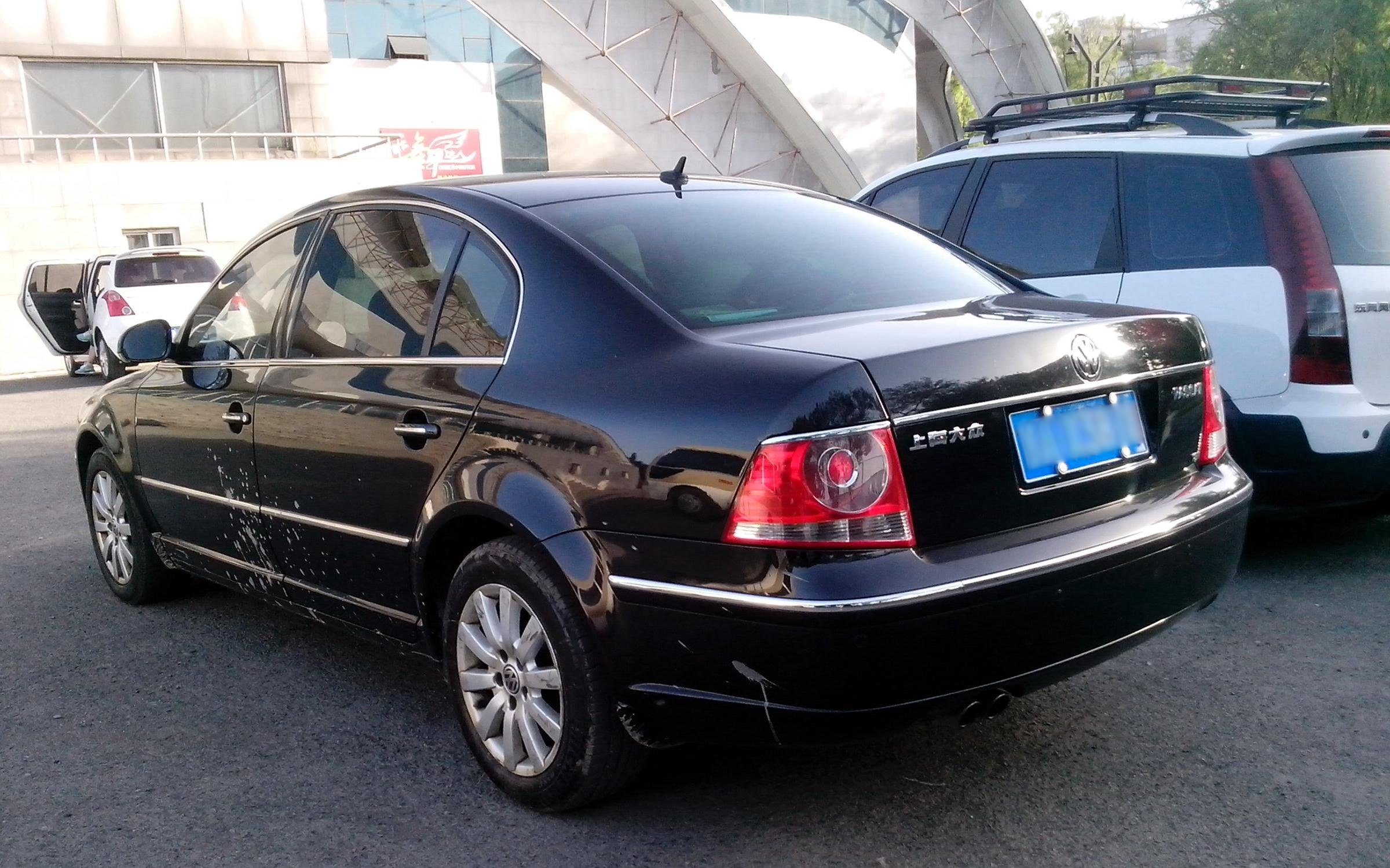 Shanghai Volkswagen Passat Lingyu (rear quarter). It is the Chinese version of Skoda Superb B5.